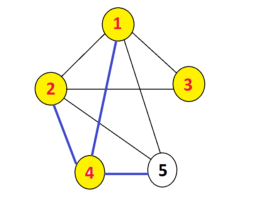 Duyet_dinh4